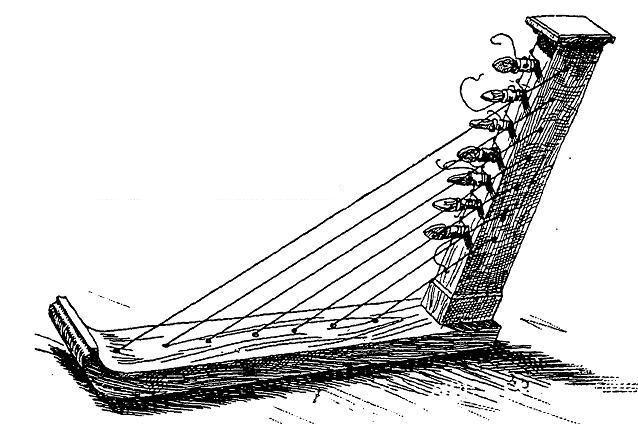 A Svanetian harp "changi" (Georgian: ჩანგი, čangi)